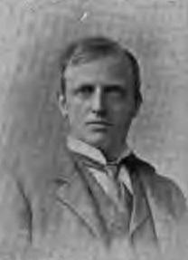 Portrait of New York state senator Charles L. Guy